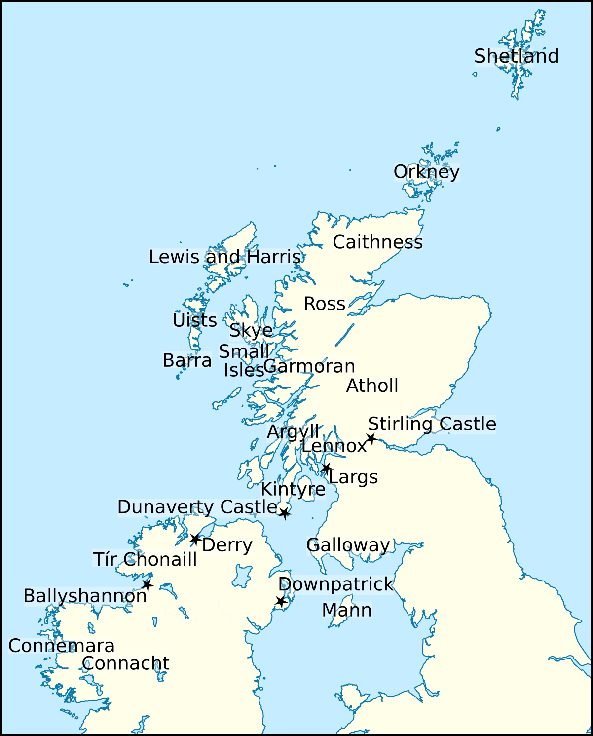 Map created for the Wikipedia article concerning Ailéan mac Ruaidhrí (died ×1296).